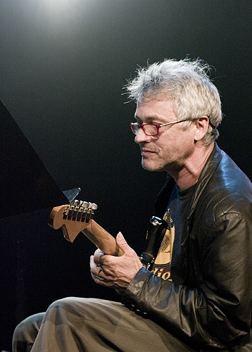 Marc Ribot at Jazzfestival Saalfelden, Austria, 2010 Photography by Frank Schindelbeck